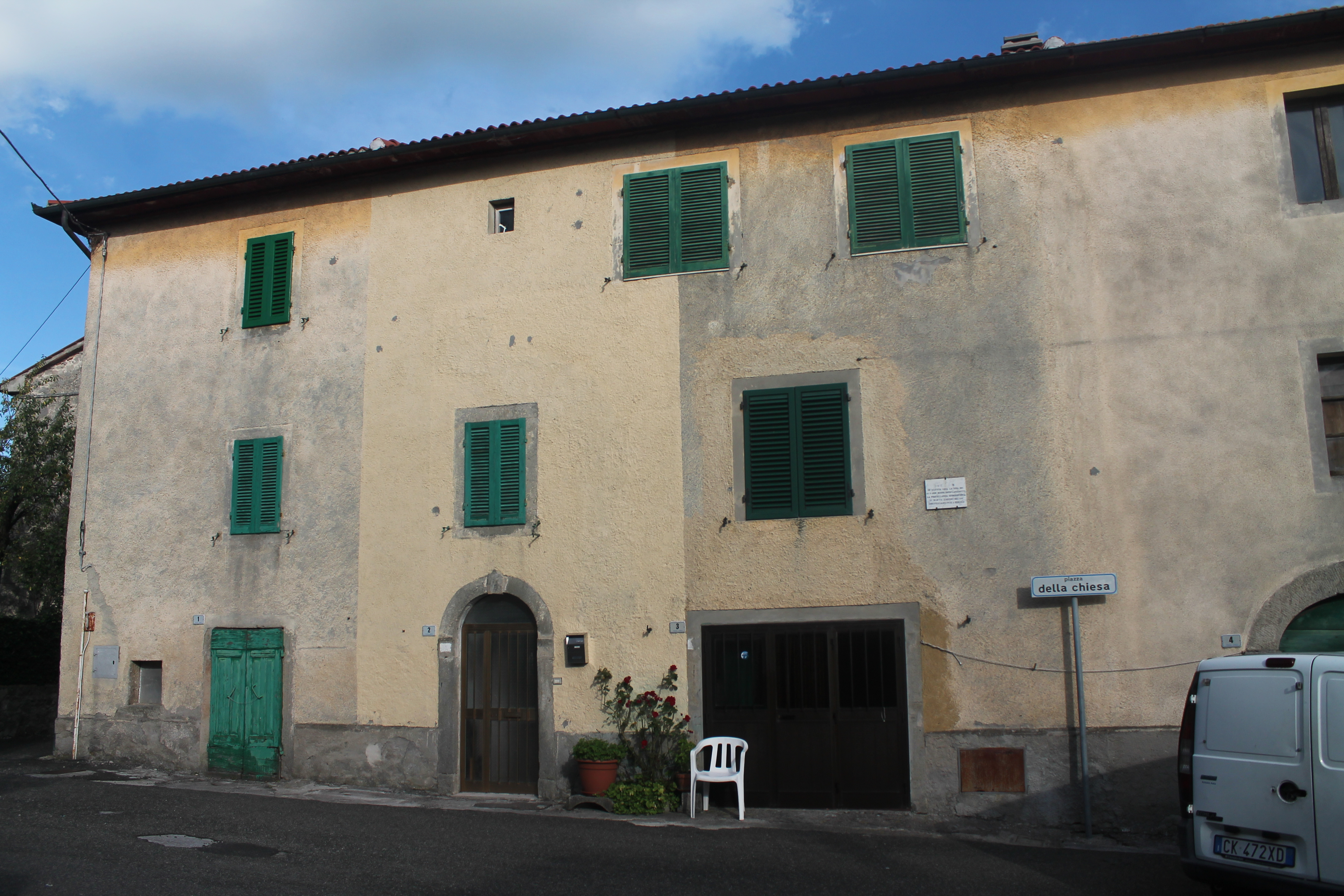 Death place of Davide Lazzaretti in Bagnore, Grosseto, Tuscany.